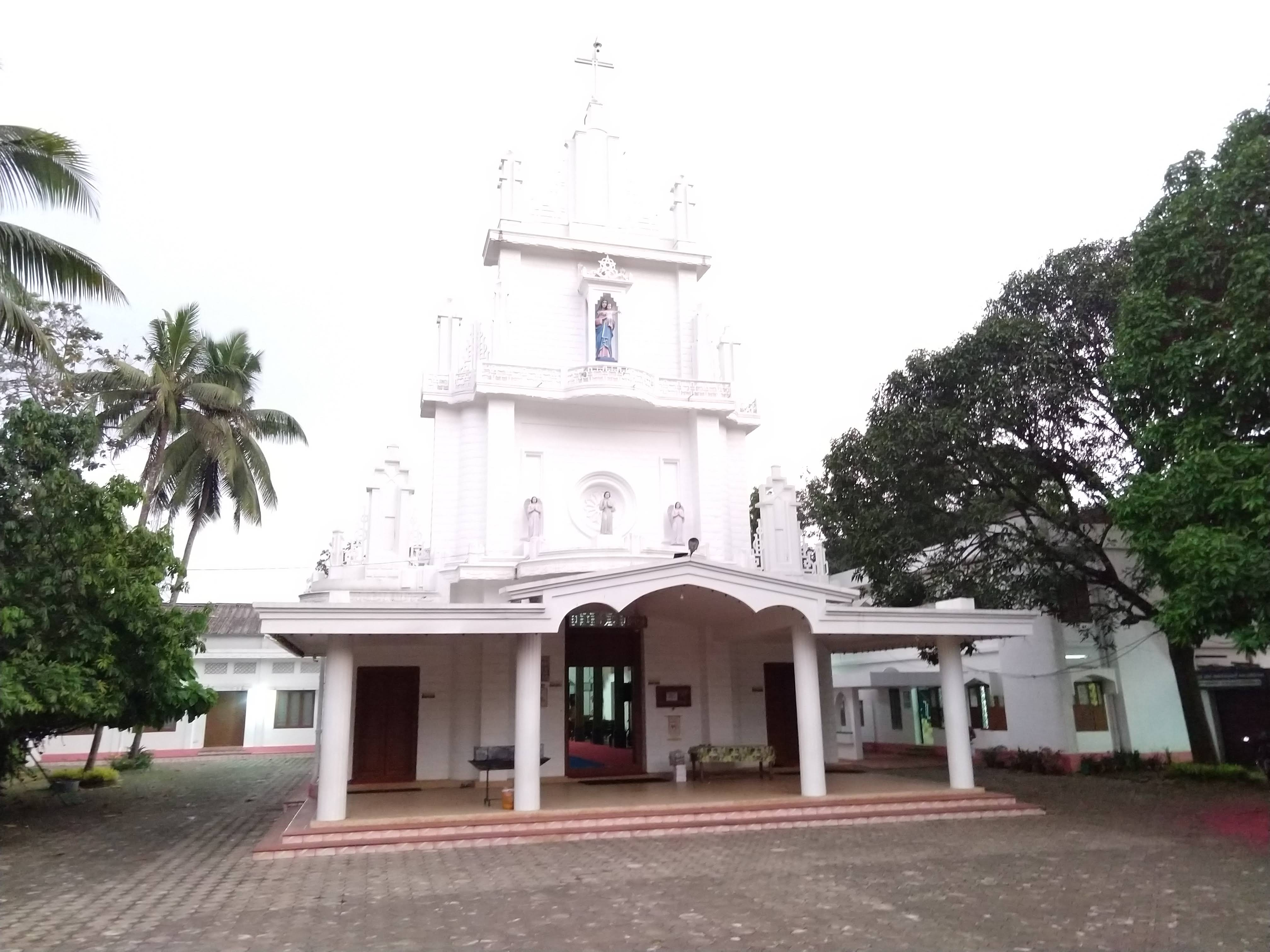 Front view of St Mary's Church, Karimannoor